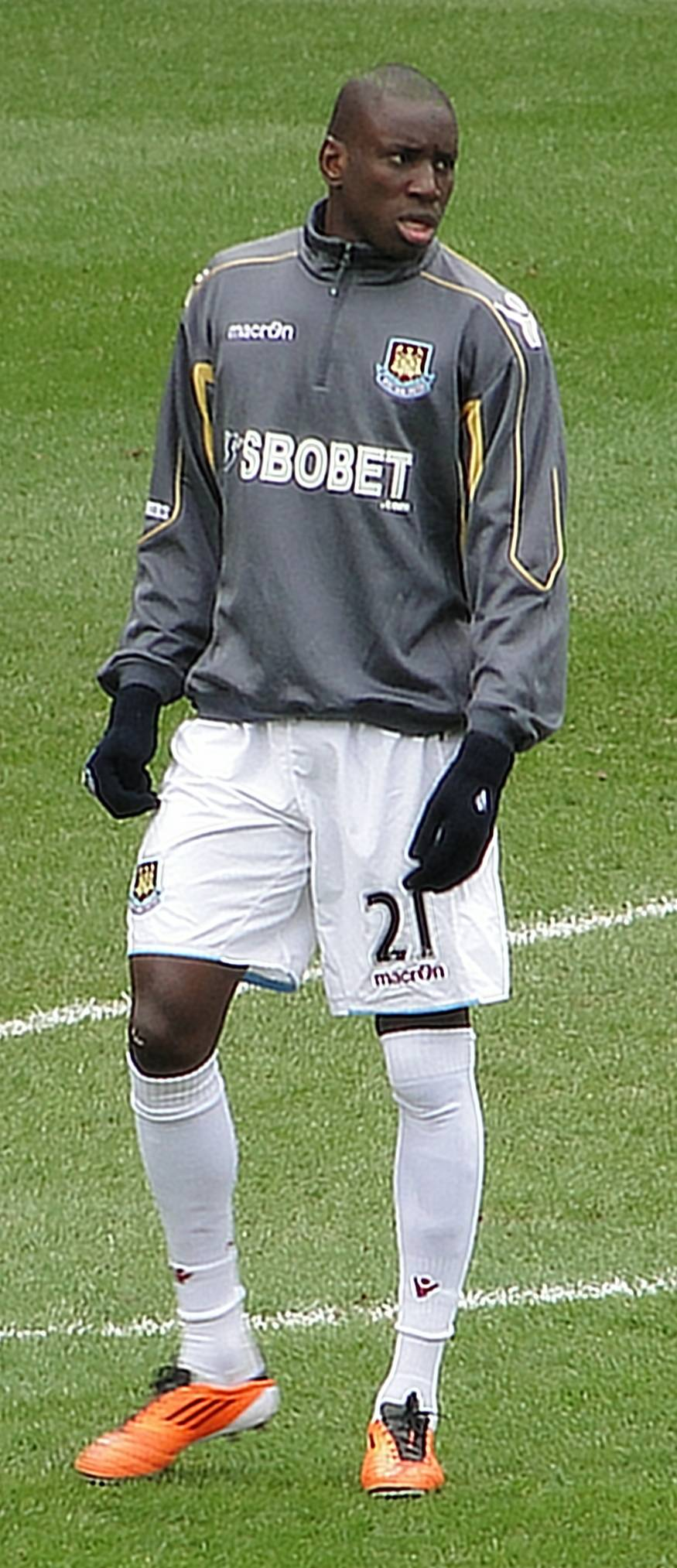 West Ham United's Demba Ba warming-up before their home game against Stoke City. Ba scored the first goal in a 3-0 win.